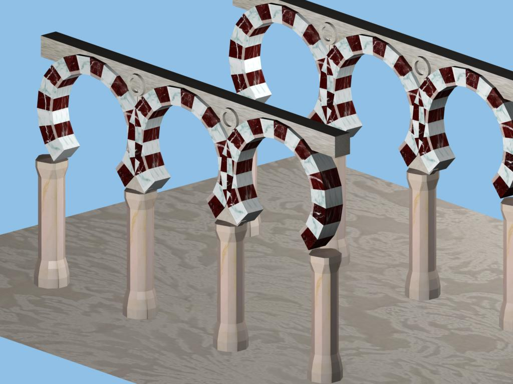 Mudéjar column